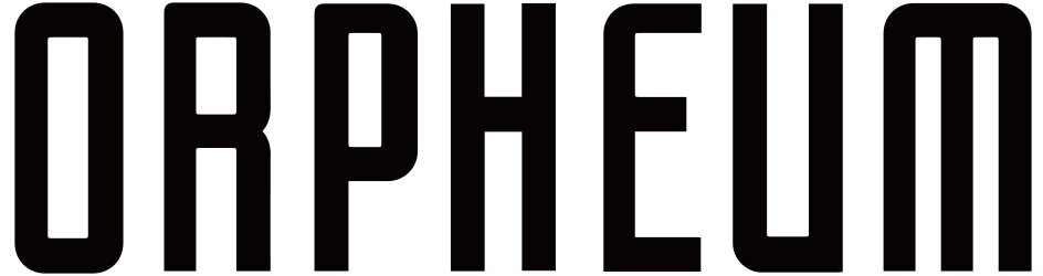 Logo Orpheum